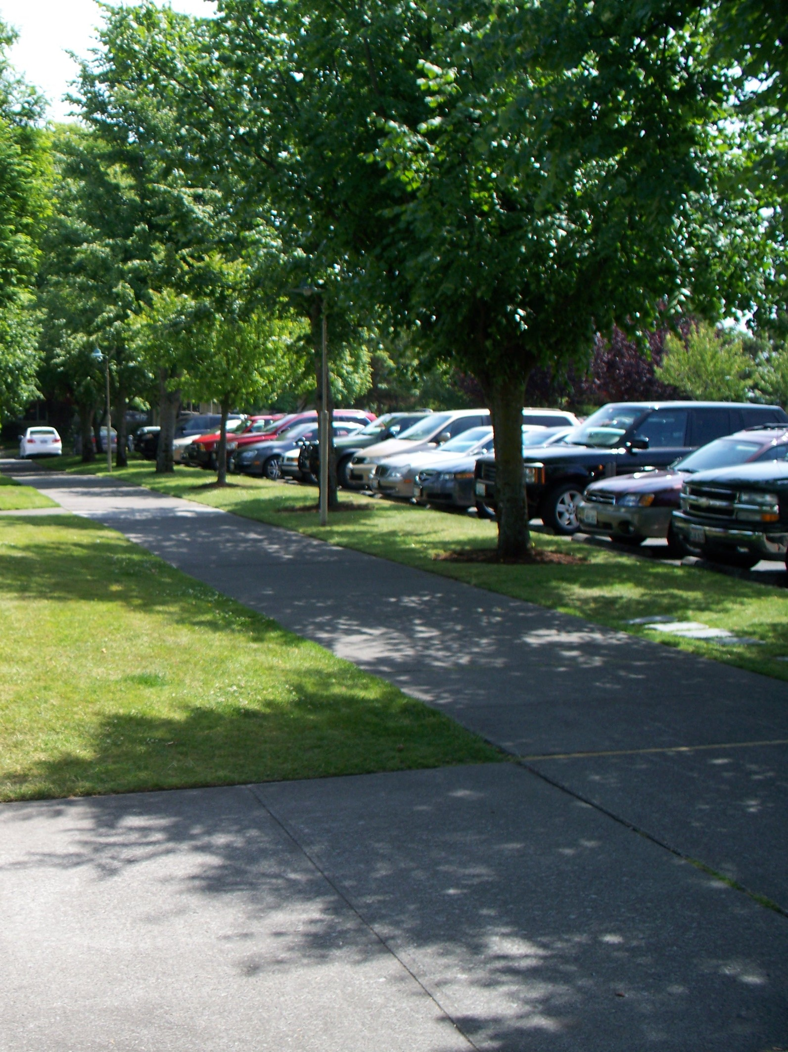 Parking lot landscaped with trees.